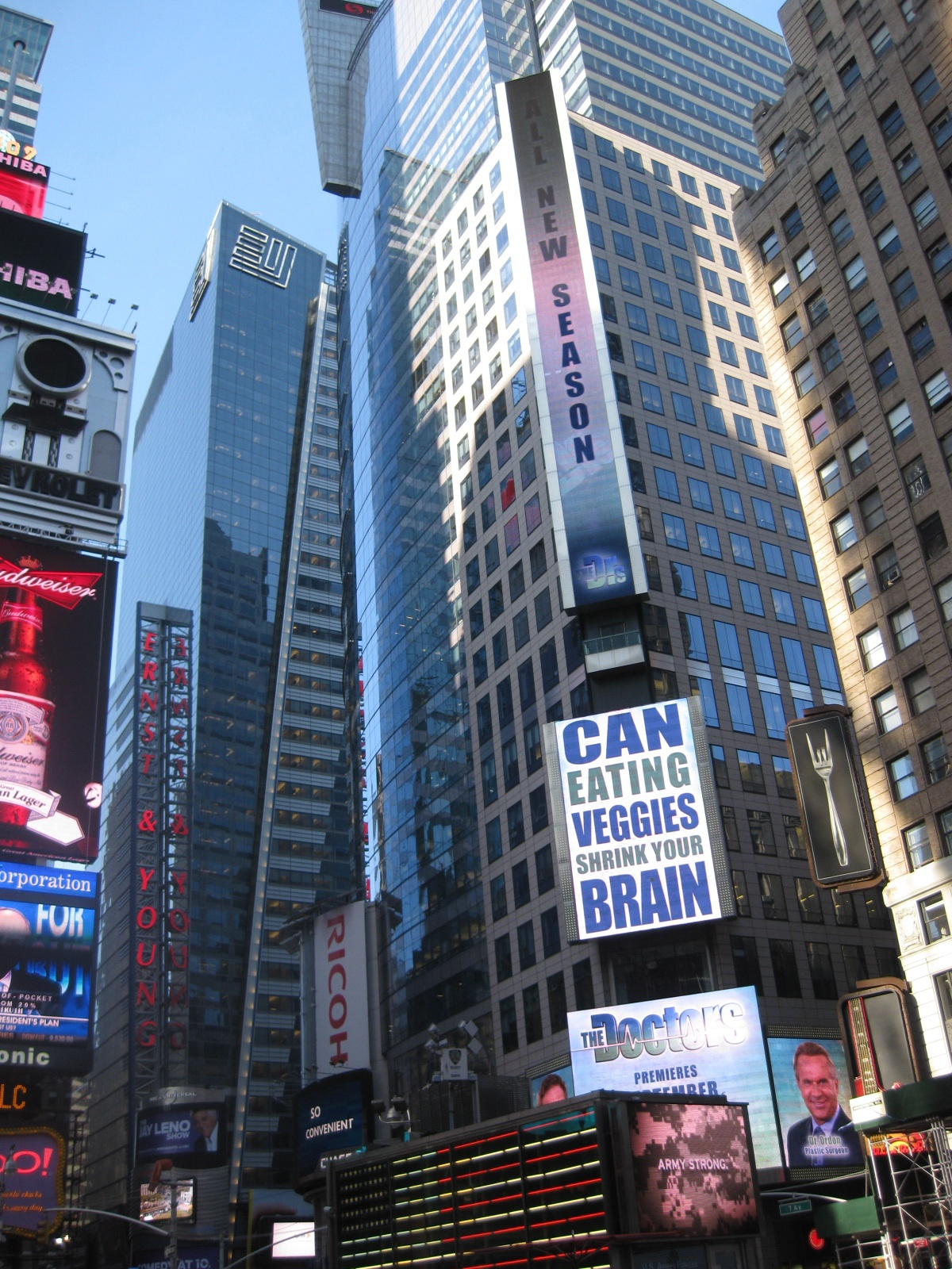 3 Times Square, as seen from 43rd and Broadway